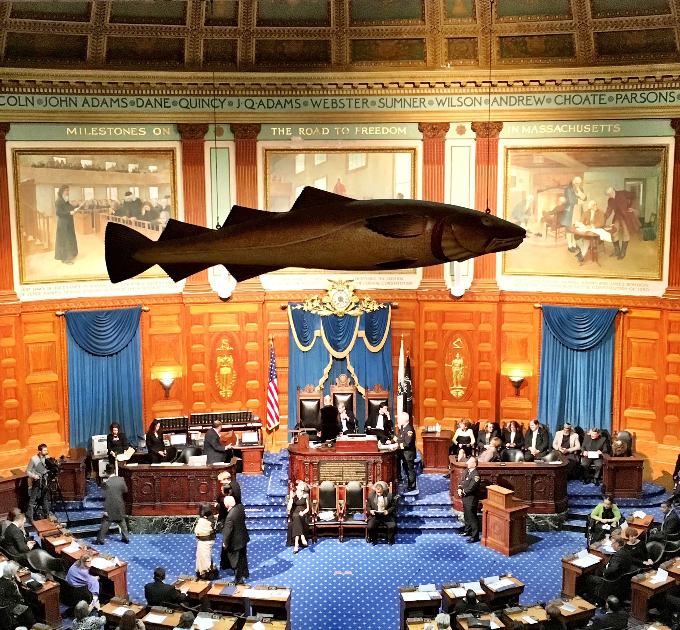 The Sacred Cod hanging above the chamber of the Massachusetts House of Representatives; overseeing the 2016 presidential election's session of the Electoral College.